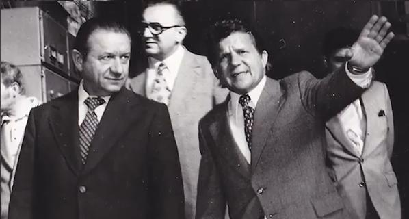 Edward Babiuch ,Leszek Kawczyński, Autosan